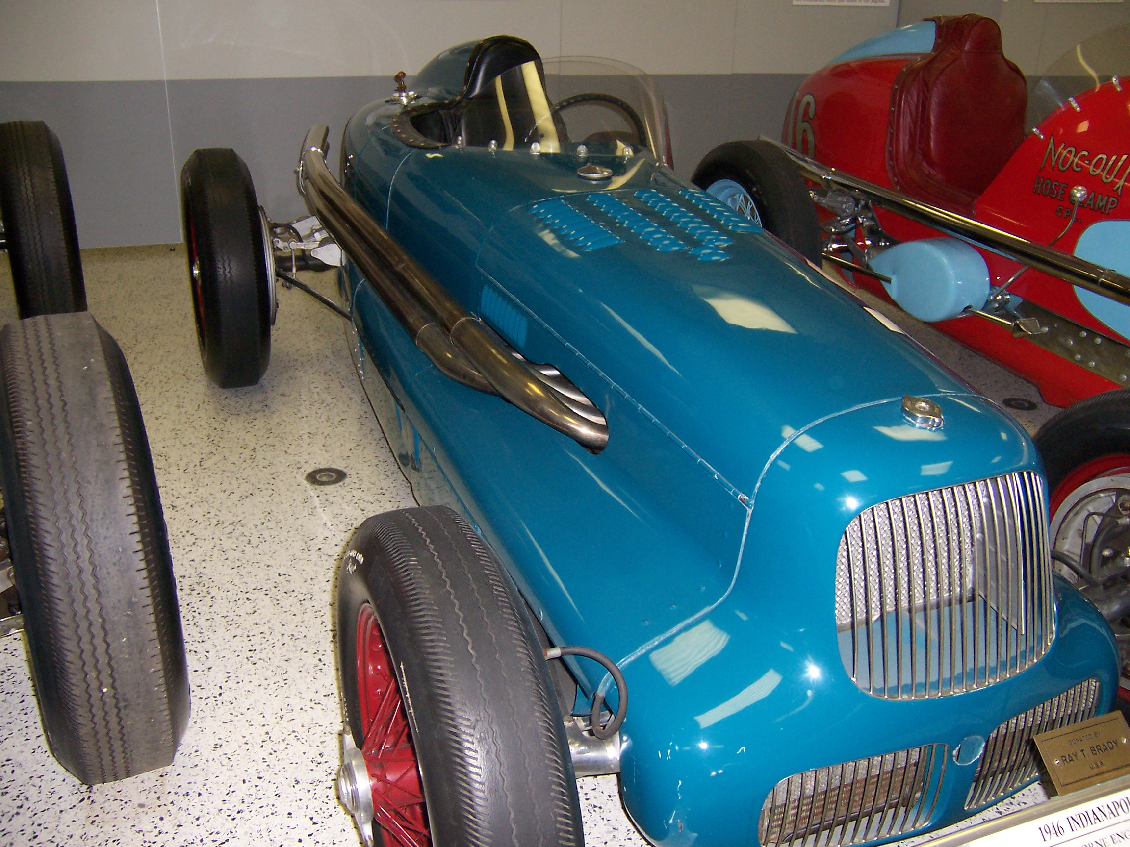 Image of the winning car of the 1946 Indianapolis 500 (George Robson). Photo was taken at the Indianapolis Motor Speedway Hall of Fame Museum, during the month of May 2011, at the 100th Anniversary "Ultimate Indianapolis 500 Winning Car Collection."